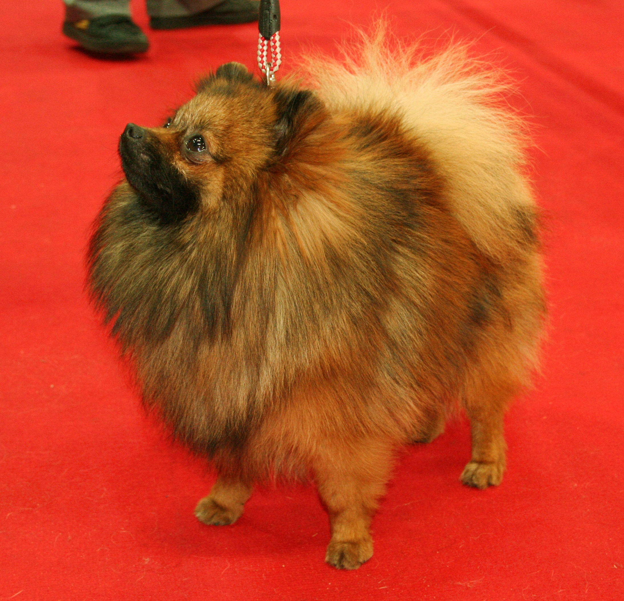 Deutscher Spitz during International show of dogs in Katowice - Spodek, Poland.